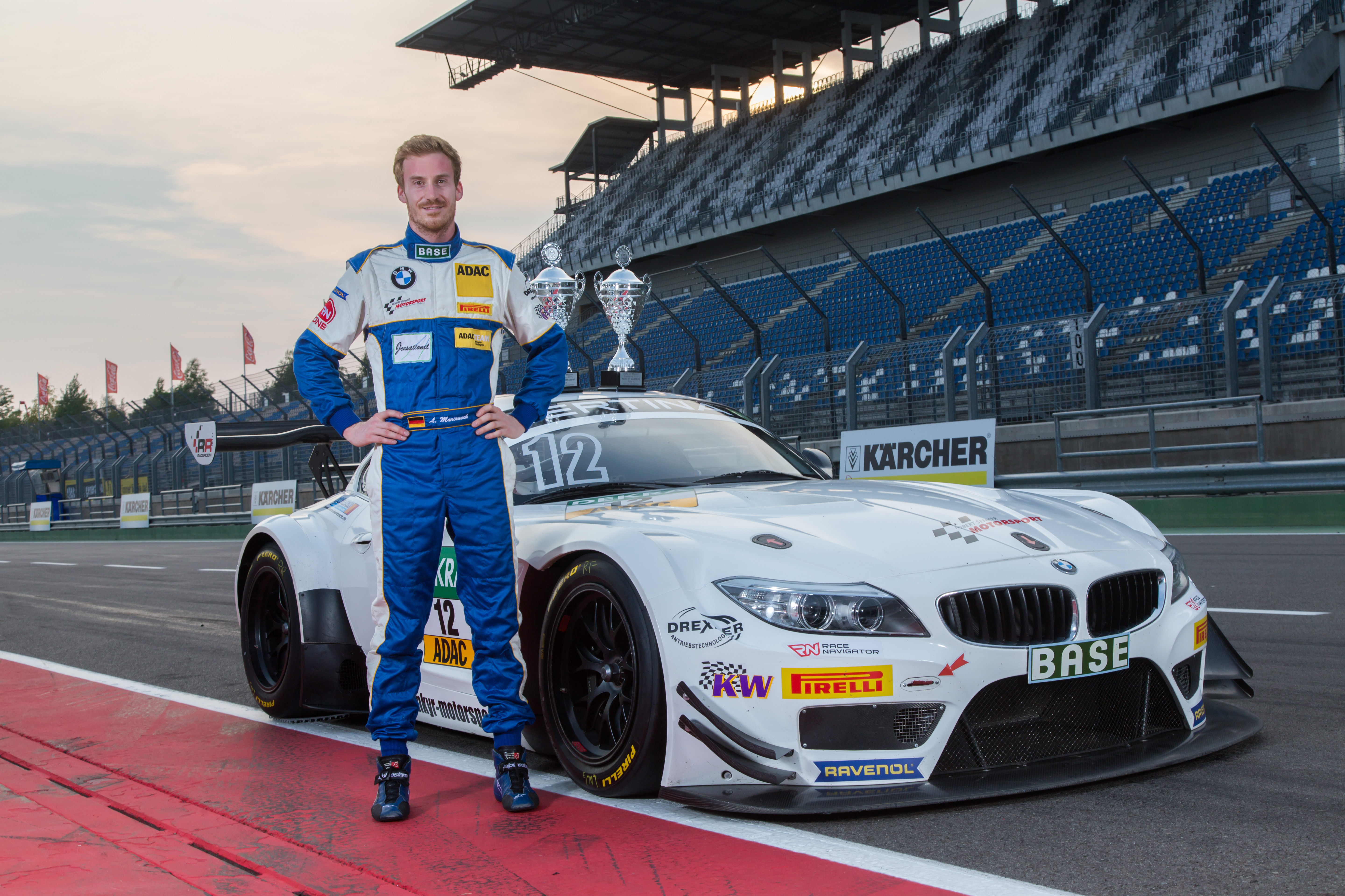 Senkyr Motorsport, ADAC GT Masters, Round 4. Lausitzring, 03.-05. July 2015